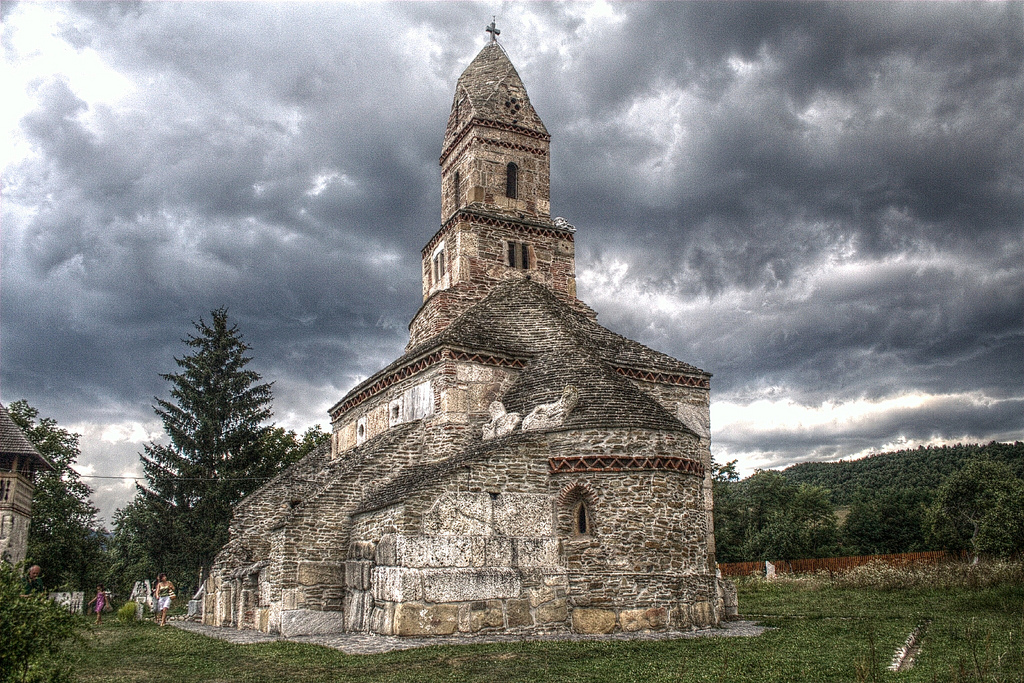 The Densuş Church from Hunedoara County, Romania was built in the 7th century with additions made in the 13th century. Some materials used are from the Dacian Sarmizegetusa fortress. It is on the site of a 2nd century Roman temple.